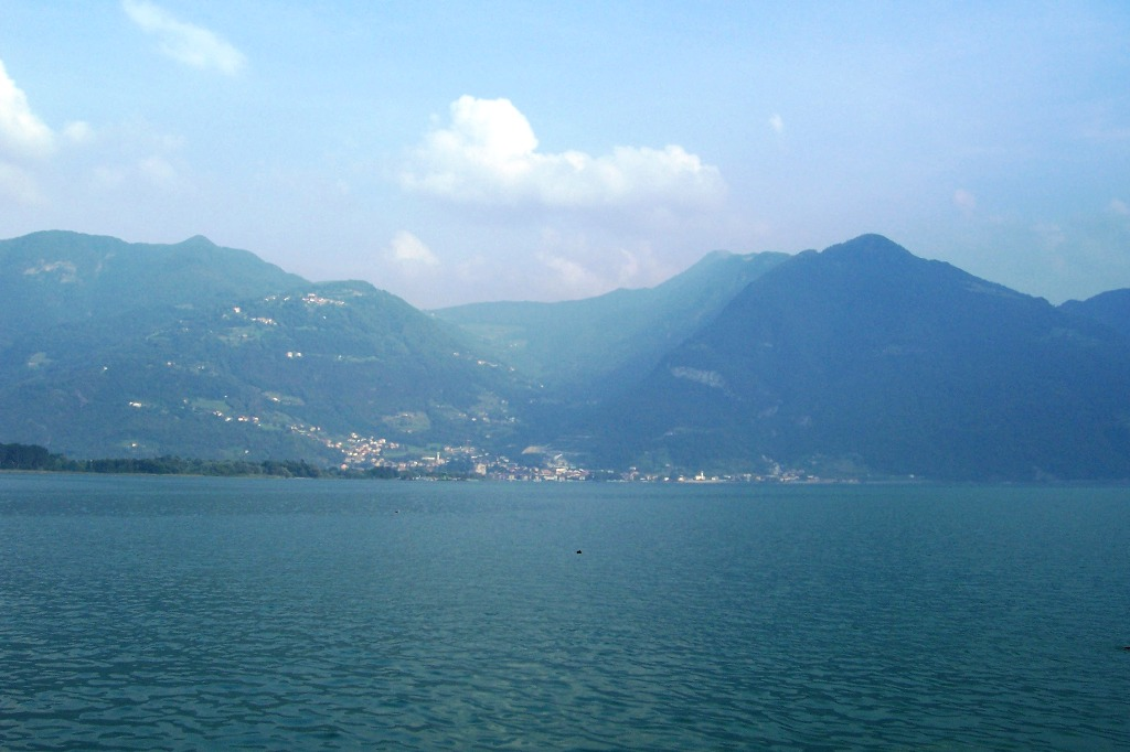 Pisogne from Lovere, Val Camonica